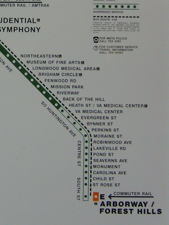 Map of the Green Line "E" Branch, showing the "suspended" section past Heath Street